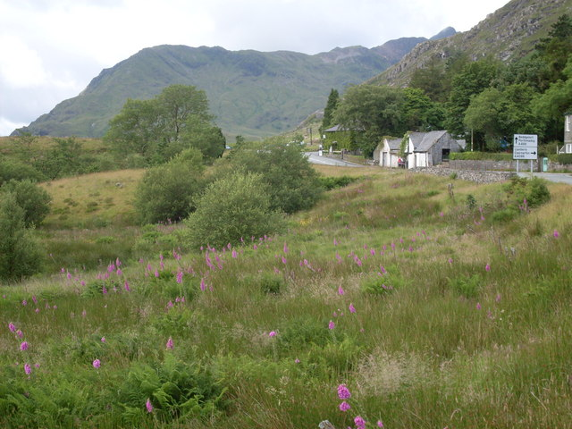 The Pen-y-Gwryd Hotel This starting point for a walk up the two Glyders offers the prospect of a round trip more readily than from Pen-Y-Pass, though it does mean the likelihood of crossing boggy ground when passing Llyn Cwmffynnon on the return.